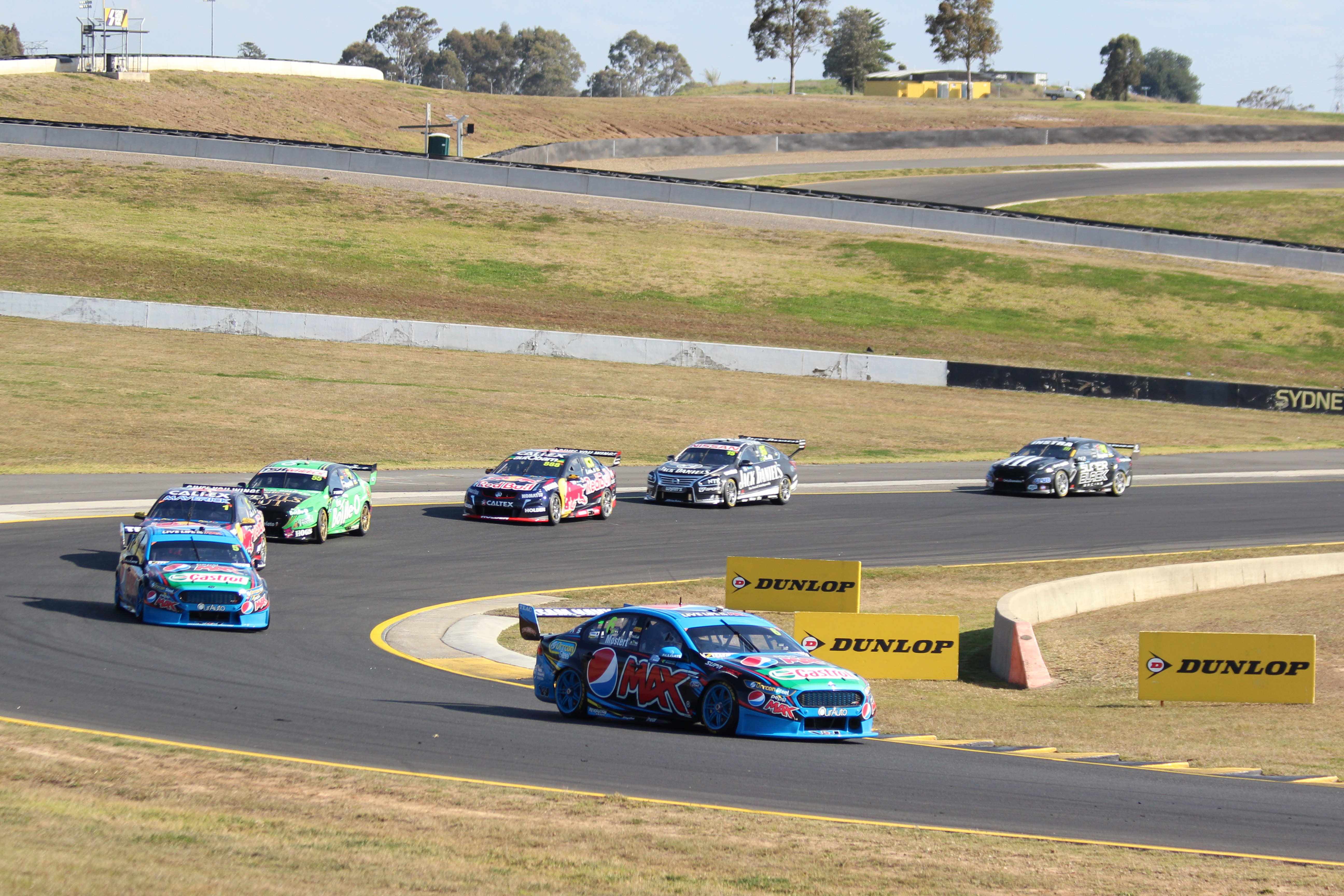 Chaz Mostert and Mark Winterbottom lead the field in the first race of the 2015 Sydney Motorsport Park Super Sprint.